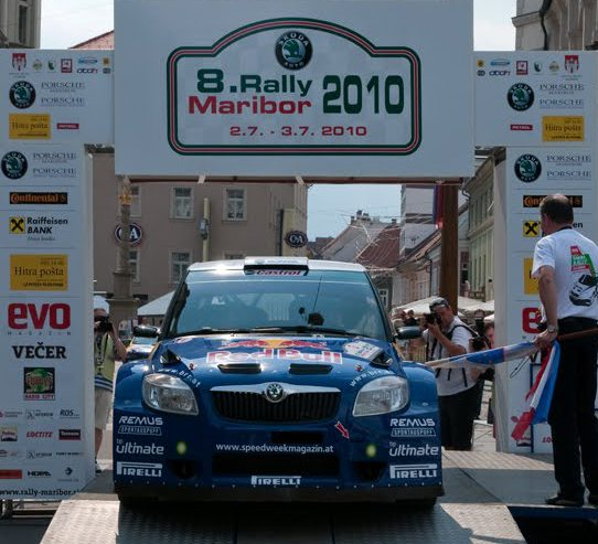 Rally Maribor 2010